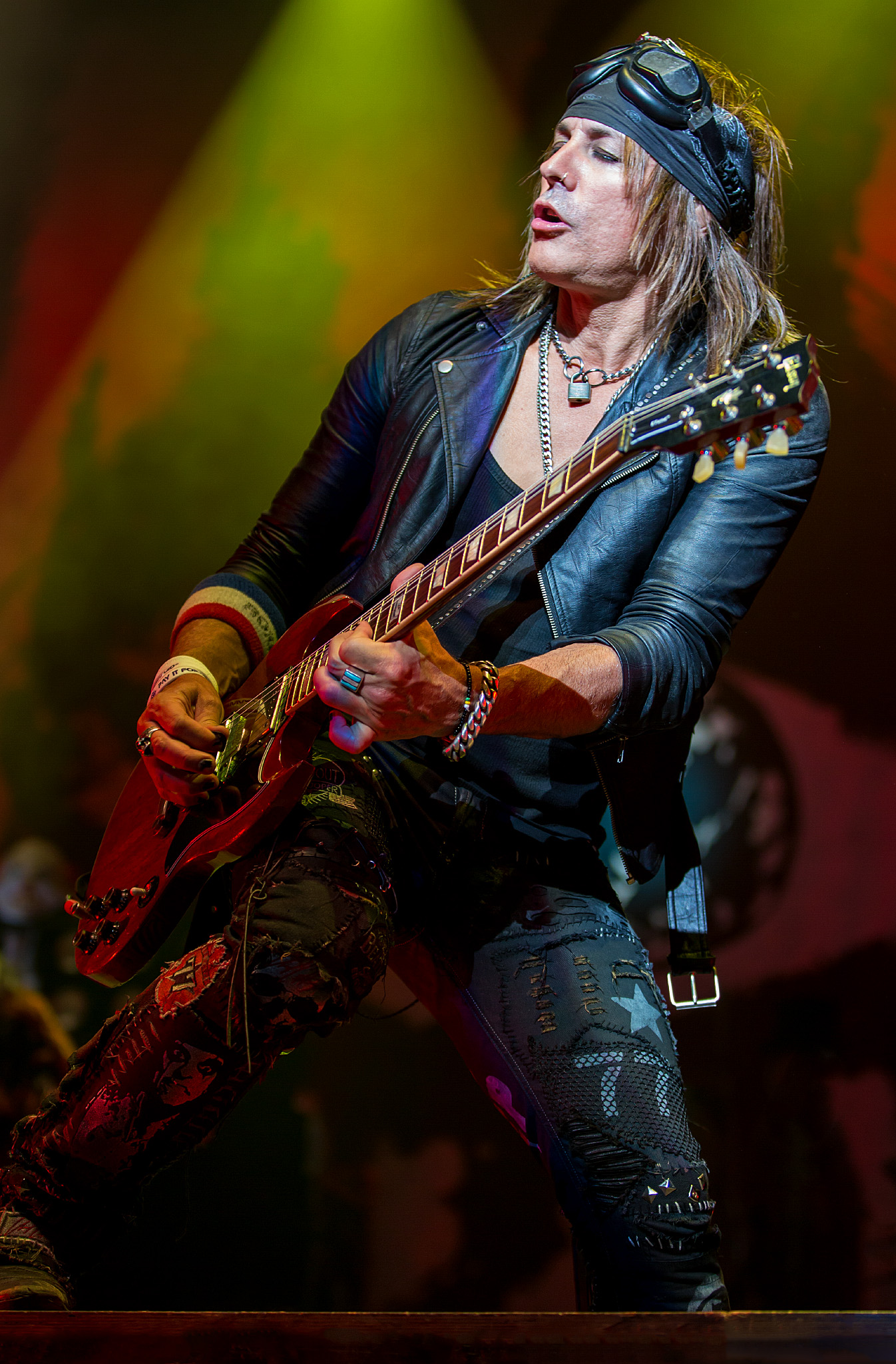 Ryan Roxie of Alice Cooper performing in San Antonio, Texas 2015-02-11.